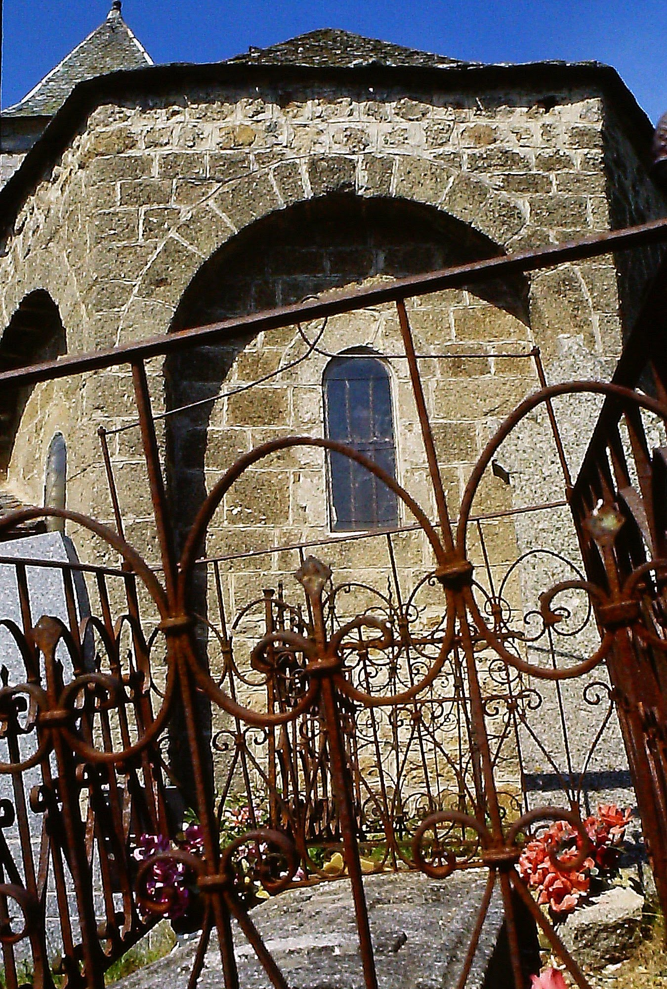 Grandvals - Eglise